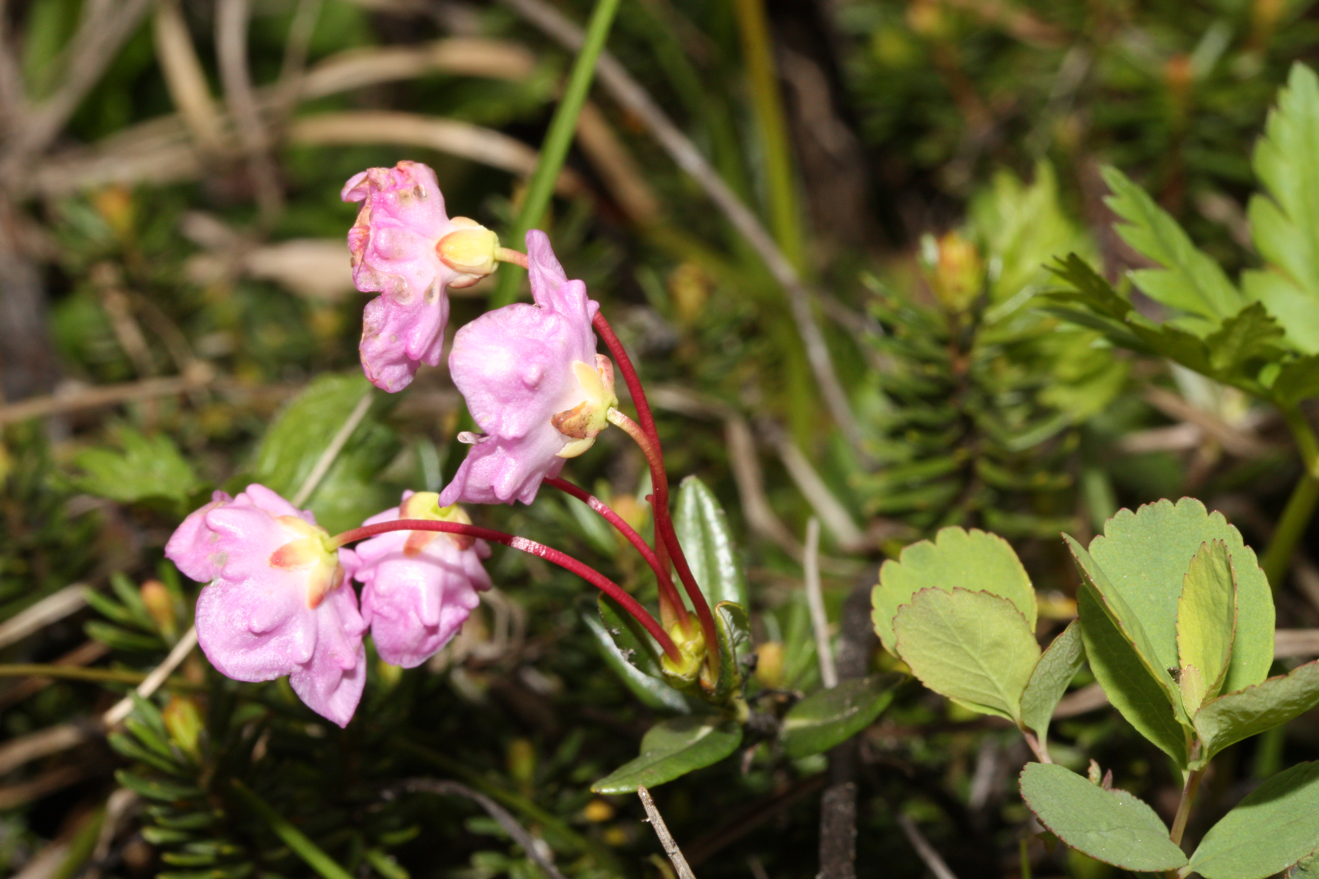 Western Swamp Laurel, Alpine Laurel